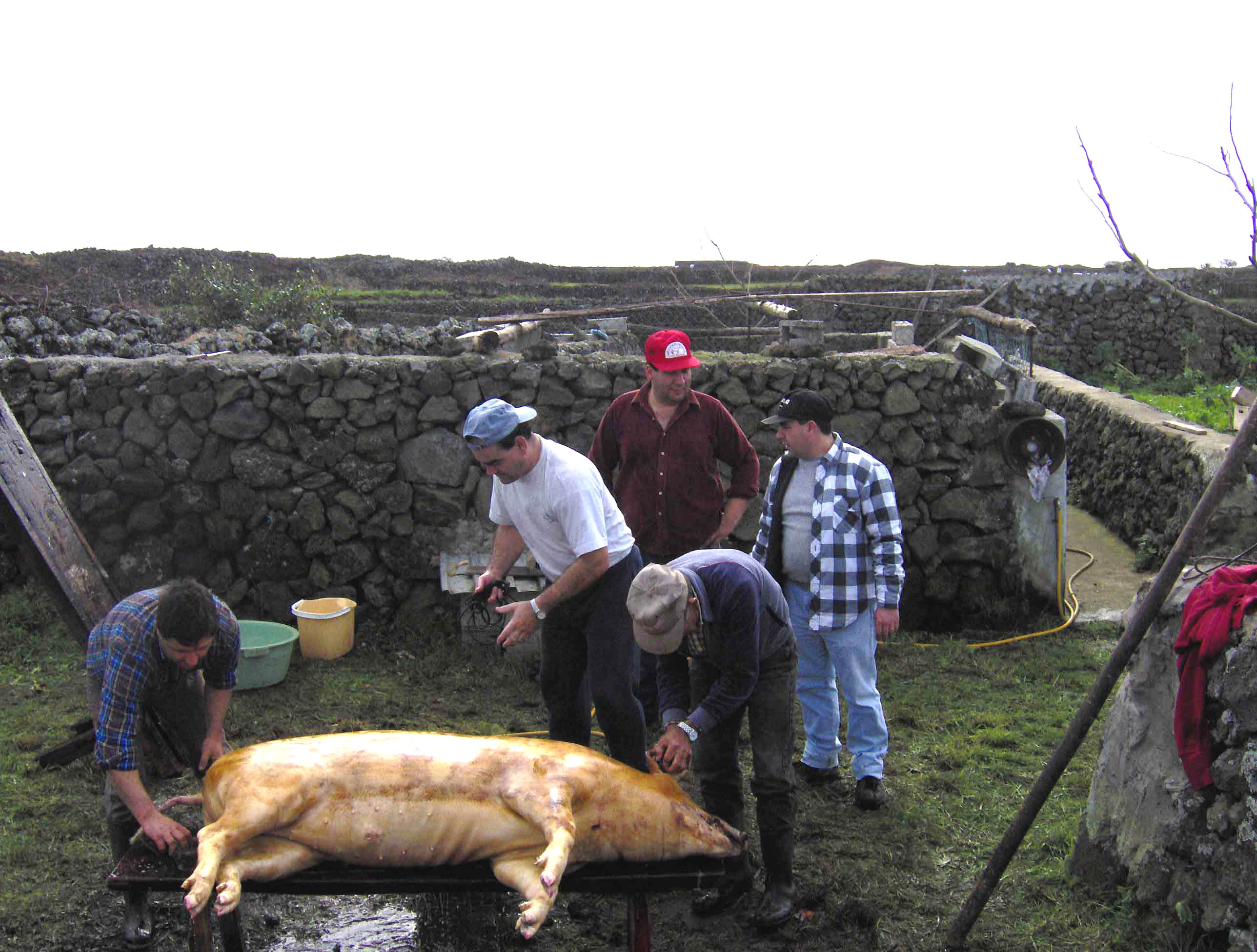 The "Matança do Porco" ("Pig Slaughter"), a traditional seasonal event in the Azores, on the island of Terceira (Azores), Portugal